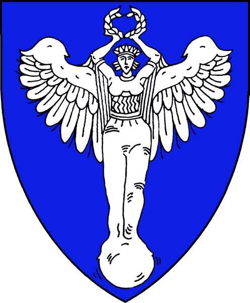 Municipal coat of arms of Přestanov village, Ústí nad Labem District, Czech Republic.